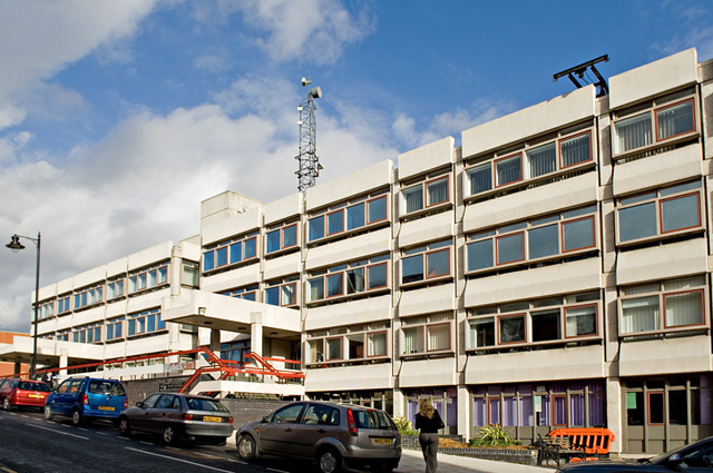 The Civic Centre in Wigan, Greater Manchester, England.